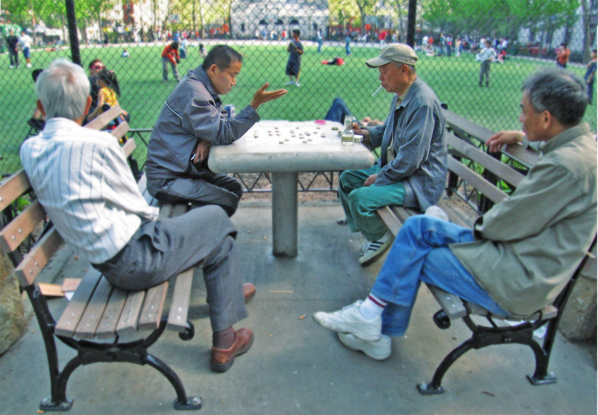 I Watch them watch them play the game Then I watch him watches them kids play games behind me, I know they watch me watch them watch them play the game.